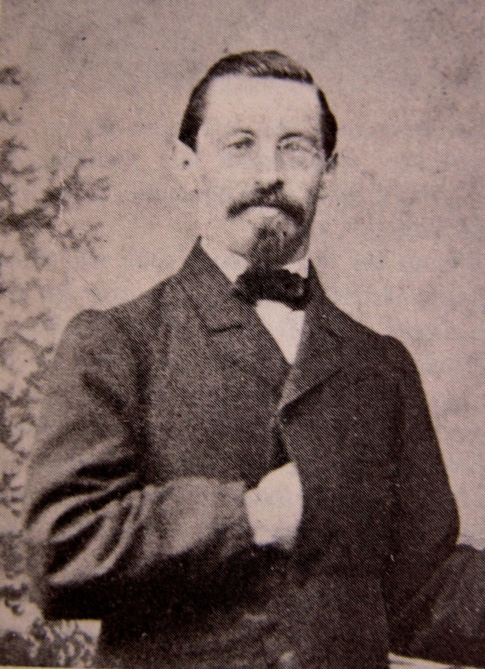 Swiss writer Jakob Senn (1824–1979)